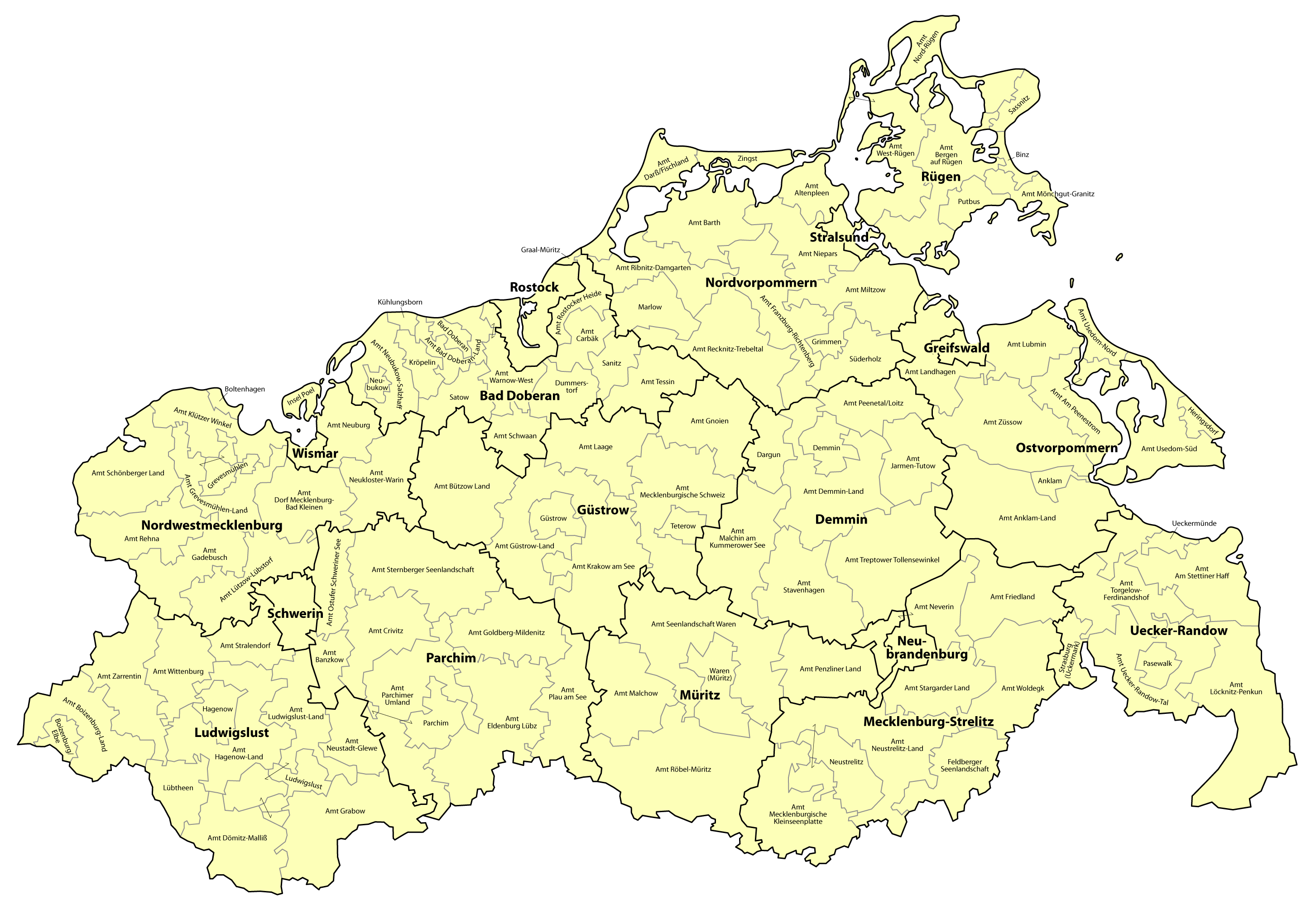 The map shows the 6 urban districts and 12 districts (bold borders) of Mecklenburg-Vorpommern as well as the municipalities (light borders) that constitute the districts